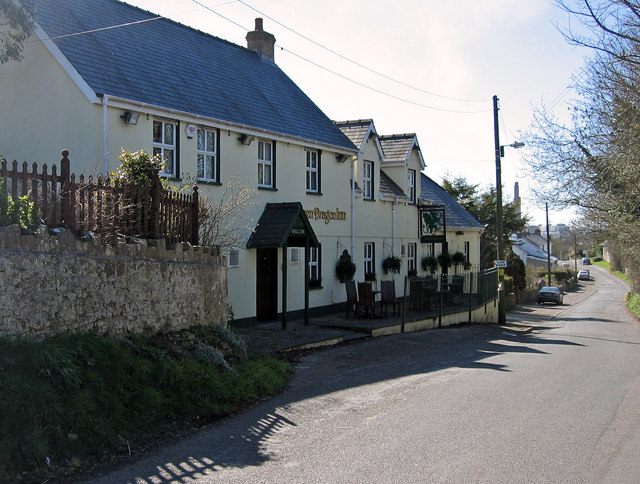 Green Dragon Inn, Llancadle, Vale of Glamorgan The Green Dragon was rebuilt after being damaged by fire.